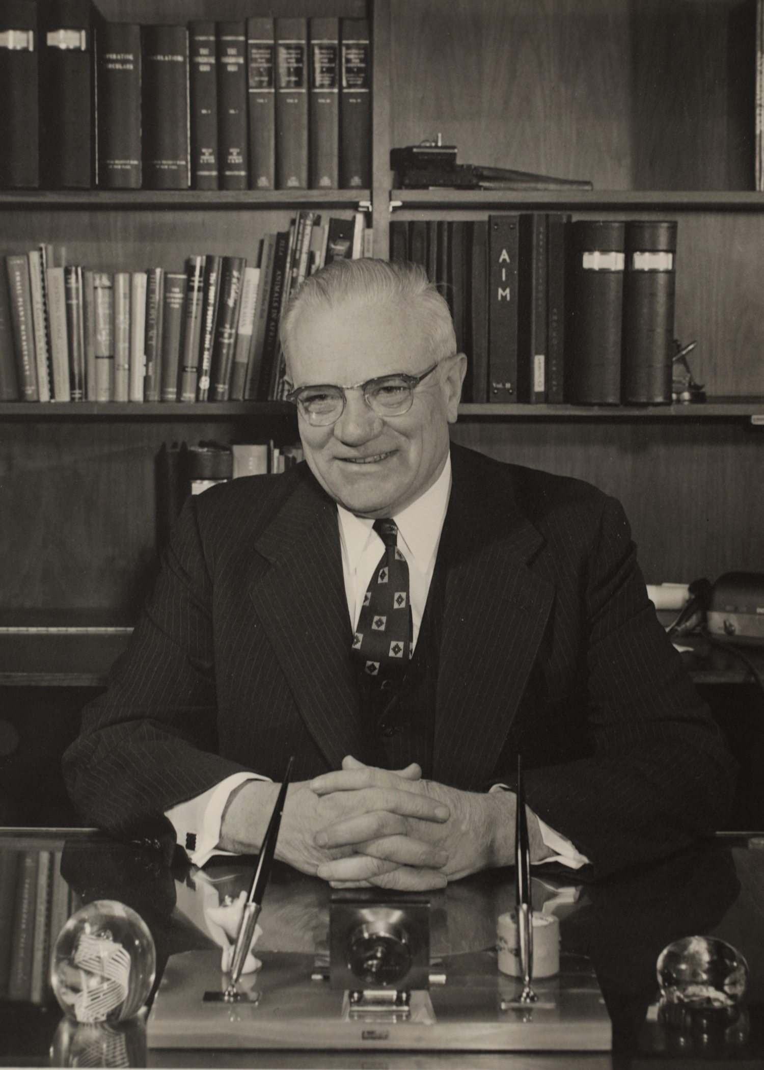 Ralph F. Peo, CEO of Houdialle Industries